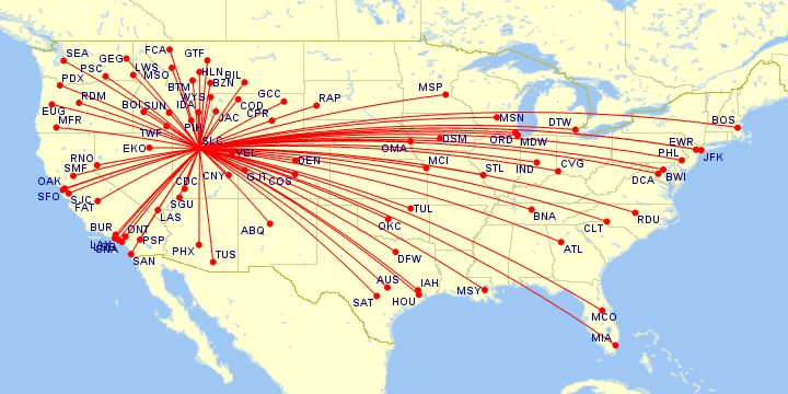 Salt Lake City nonstop domestic routes in the contiguous United States.